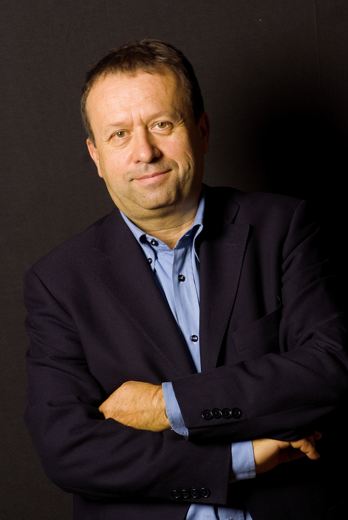 photo of Massimo Montanari